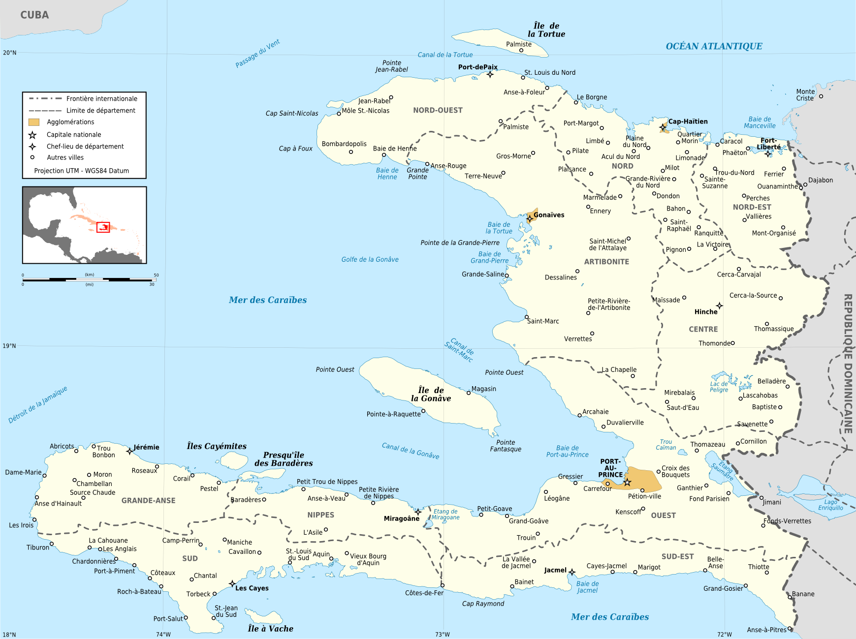 Administrative map of Haiti in French, with départements and cities. Use the SVG version for translations and alterations, then update this one.